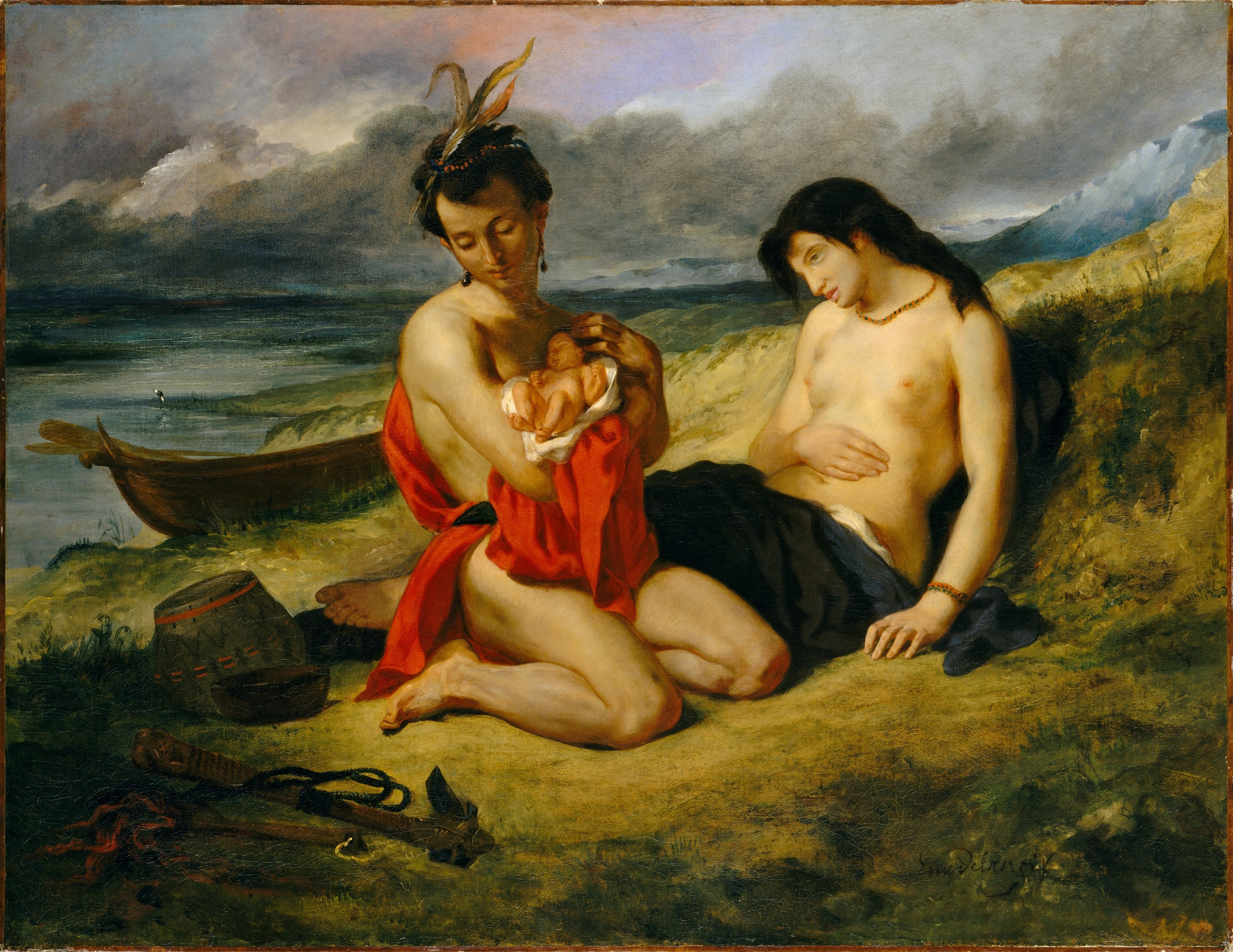 Depicts Natchez Native American mother and father with their newborn child on the banks of the Mississippi River. Inspired by 1801 novel "Atala" by Chateaubriand, the setting is in French Colonial Louisiana; the Natchez couple have recently escaped upriver from a massacre.[1] ↑ MET Museum